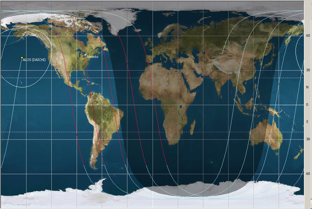 Screen grab from the PreviSat program showing the orbits of the ALOS Daichi satellite. Shows Toronto, Canada as the "home" location.